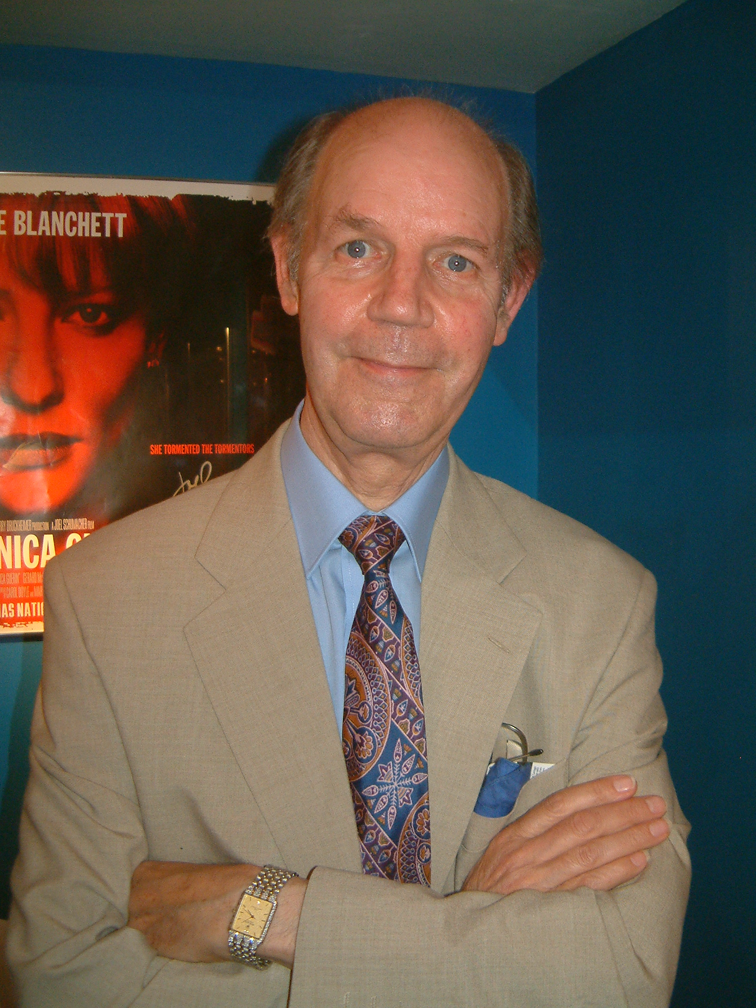 Brian Cant at a Play School Reunion event.